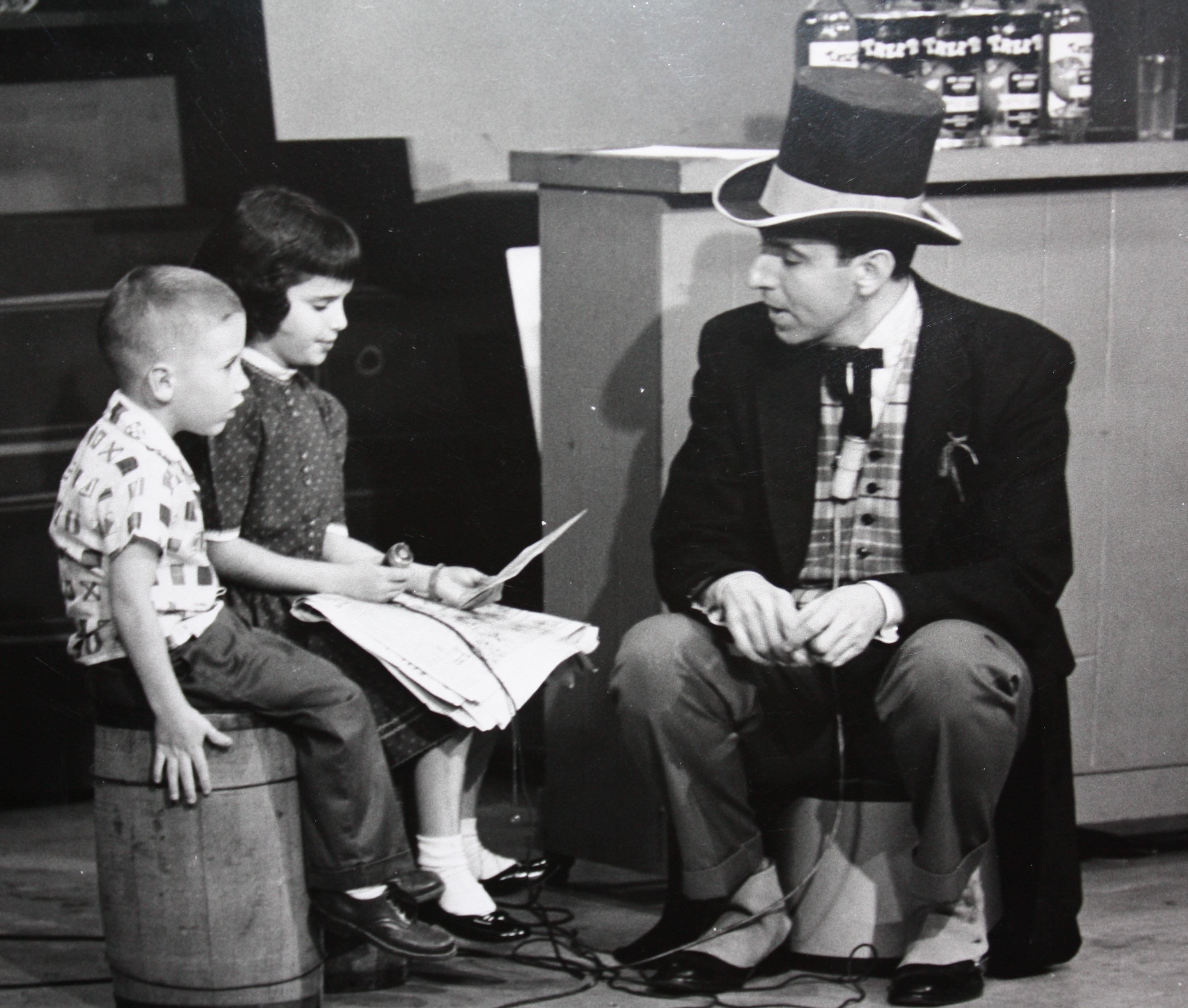 My dad took this picture on the day that I was the child host of the Mayor Art Show.